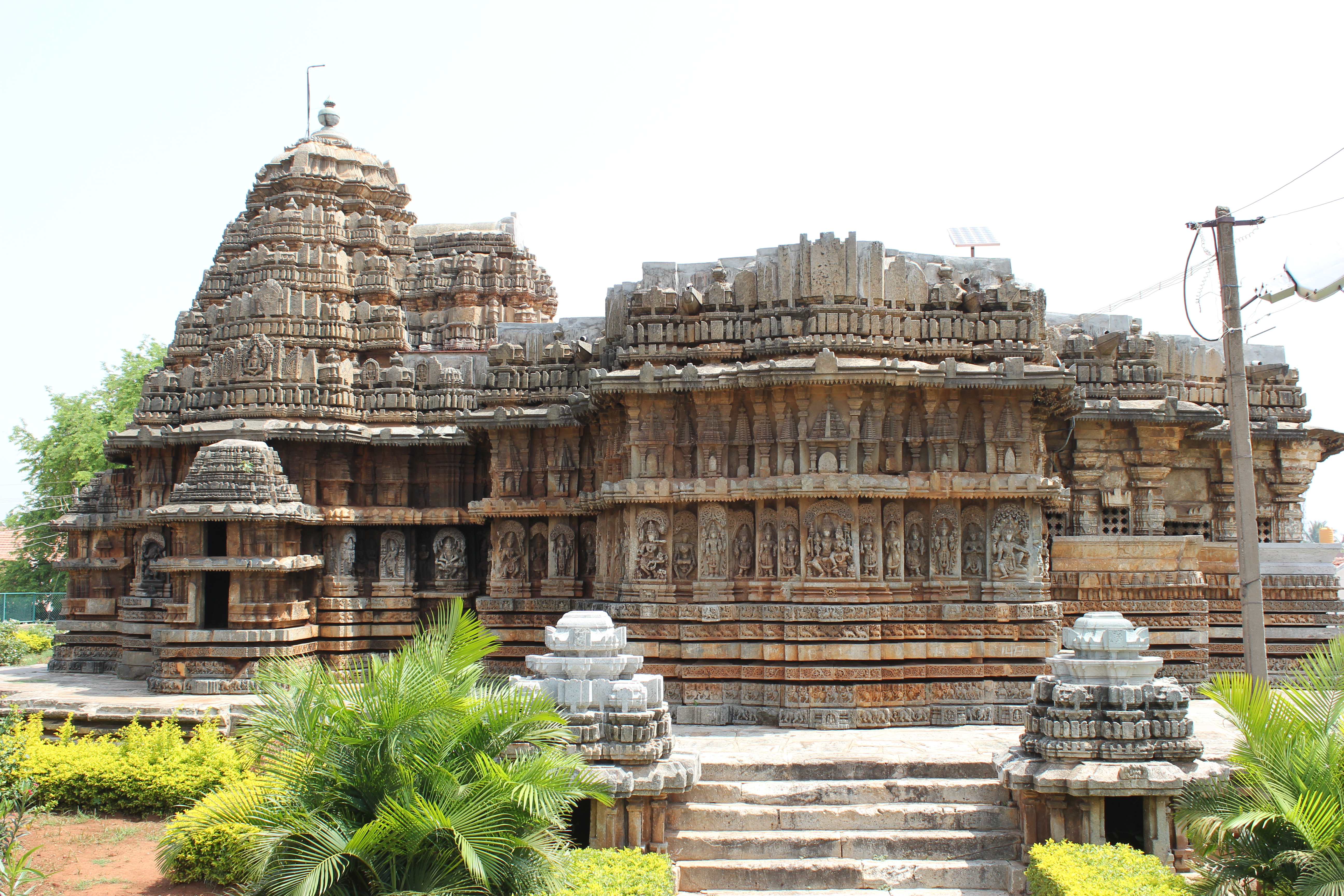 This photograph was taken by me at Haranhalli, Hassan district, Karnataka state, India. The temple, whose main deity is the Hindu god Vishnu, was built in 1235 A.D. by the Hoysala Empire King Vira Someshwara.